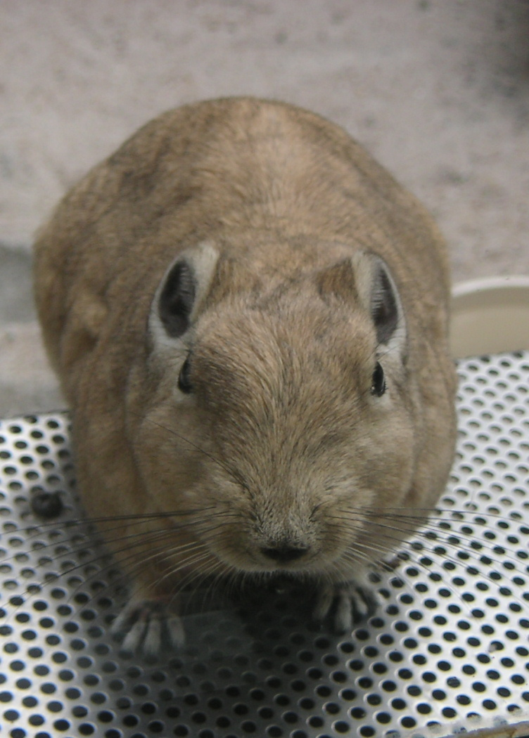 Common gundi (Ctenodactylus gundi). Young, front view.